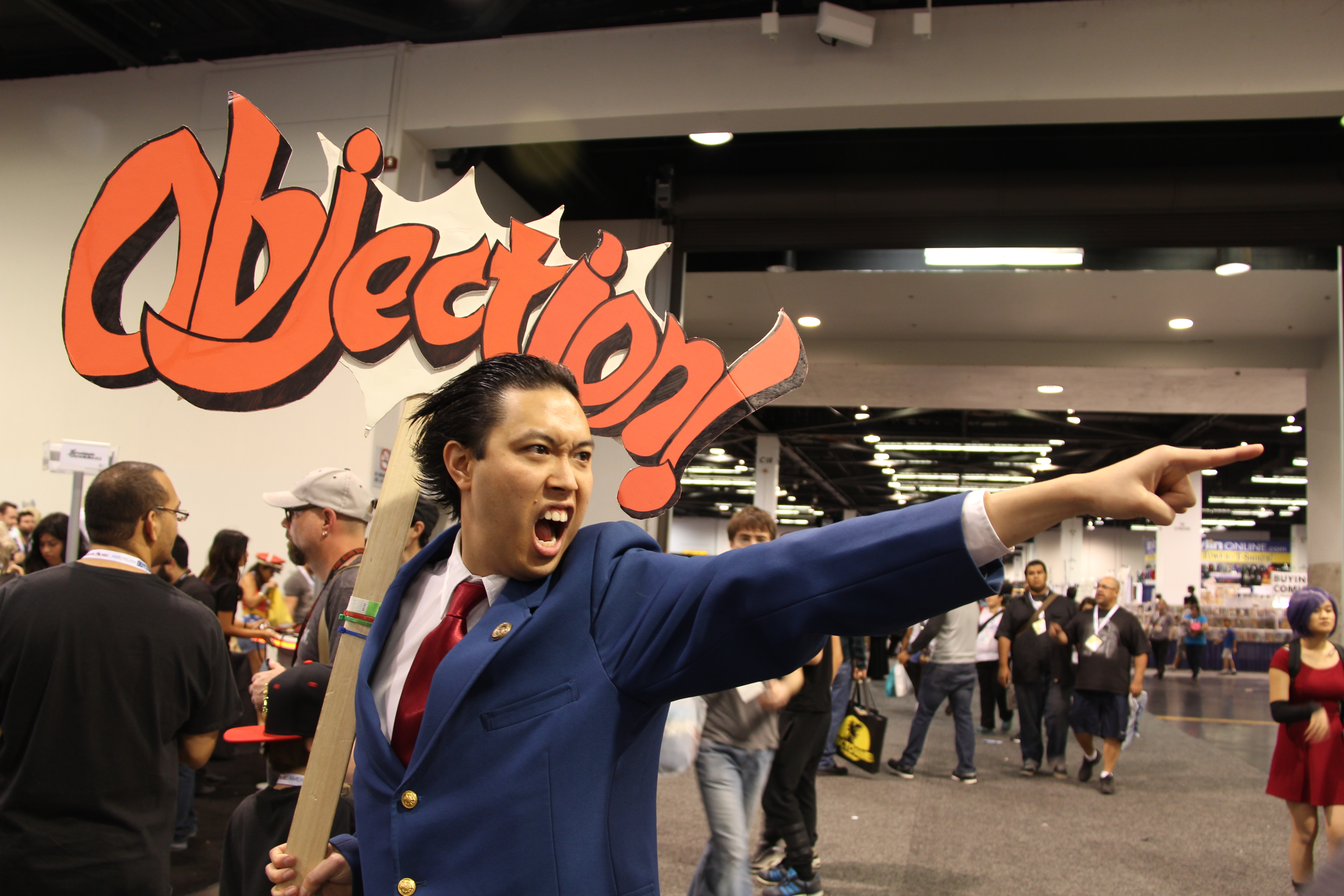 A cosplay of Phoenix Wright from the Ace Attorney series